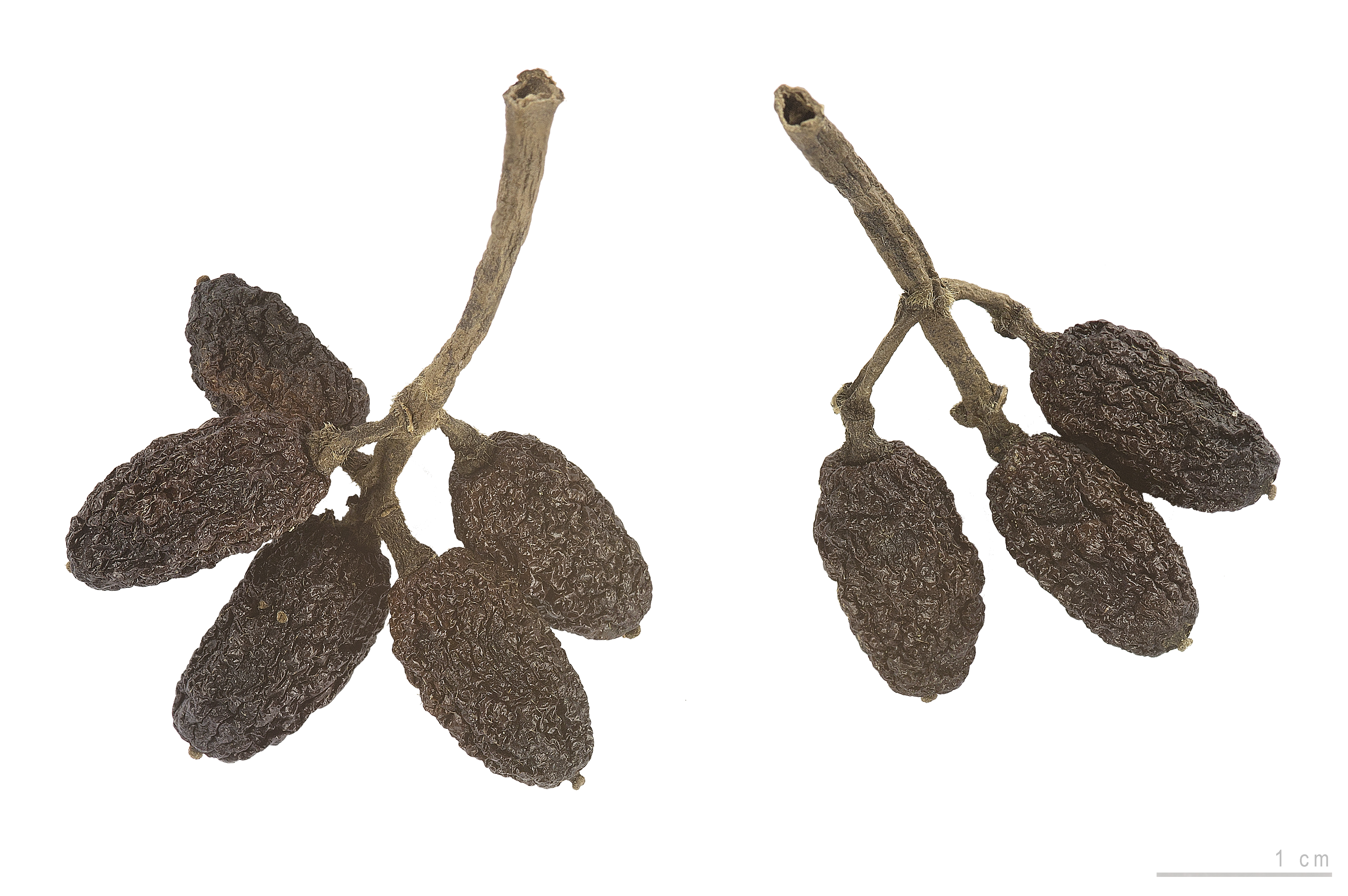 spotted laurel , fruits and seeds